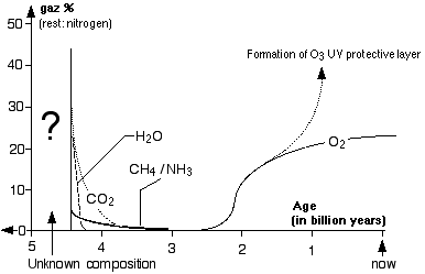 Evolution of the composition of the terrestrial atmosphere. The living beings contributed largely to this modification, fixing and consuming the CO2 and producing O2. At the same time, the atmospheric pressure considerably decreased.